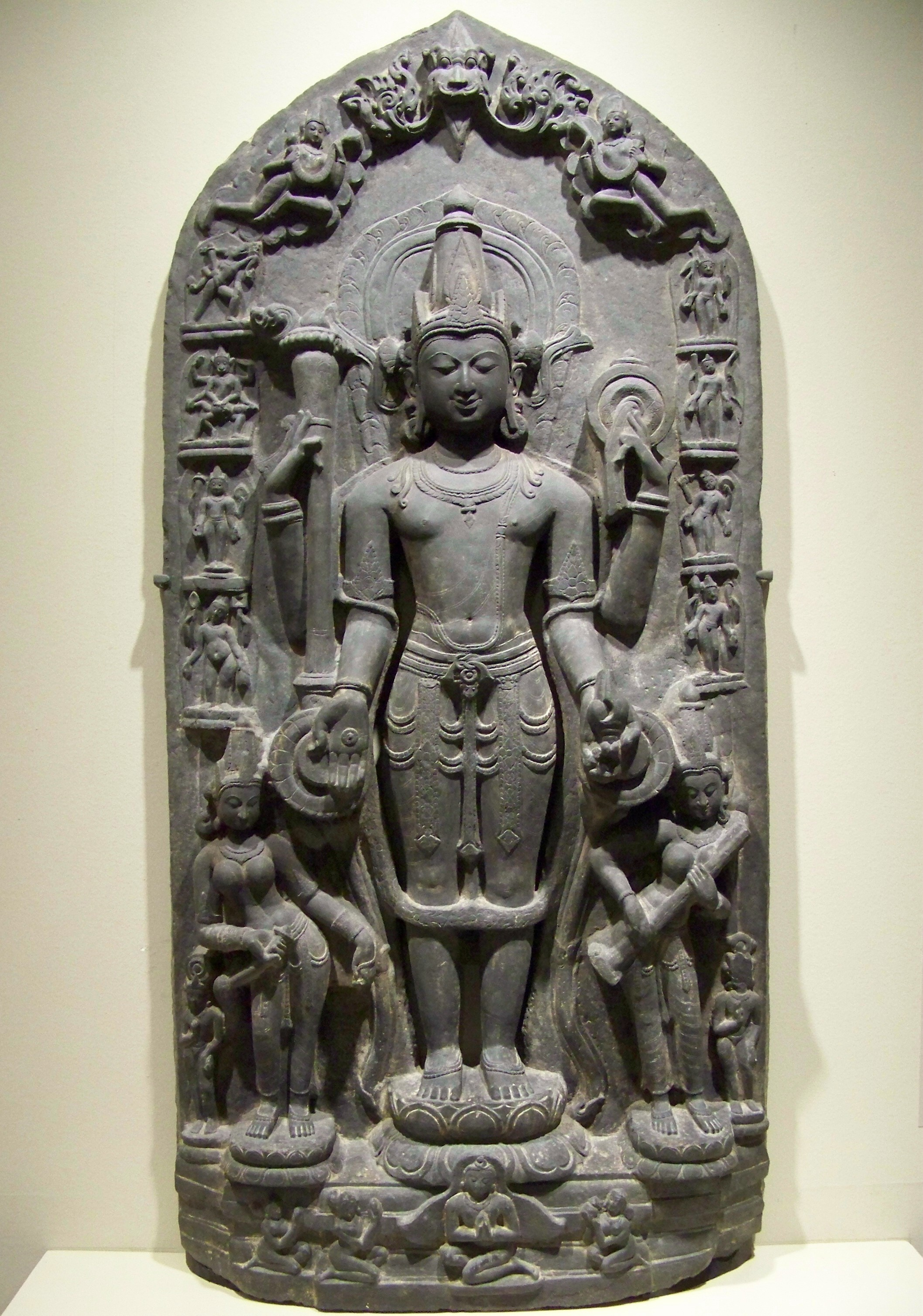 Vishnu and his Avatars, 11th century. Black schist. Brooklyn Museum, Gift of Dr. David R. Nalin, 1991.244.